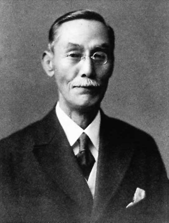 Tomita Tsunejiro, one of the Four Guardians of Kōdōkan.